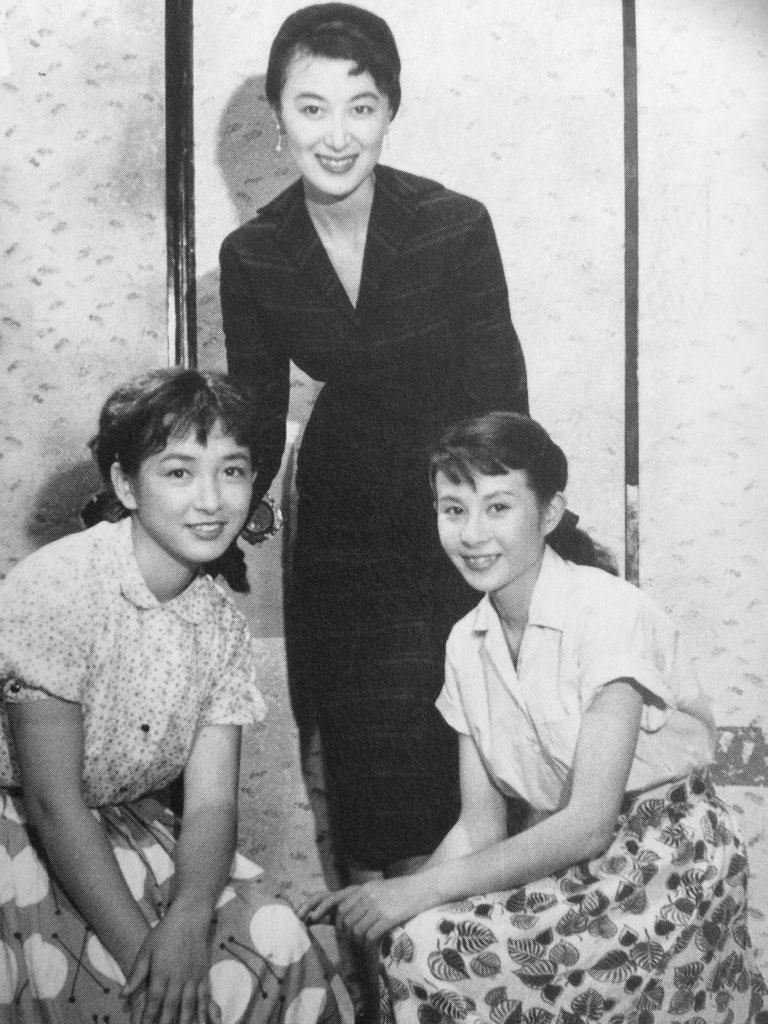 From left: Ineko Arima, Keiko Kishi (standing) and Yoshiko Kuga at an event for their production company Ninjin Club (にんじんくらぶ), 1954